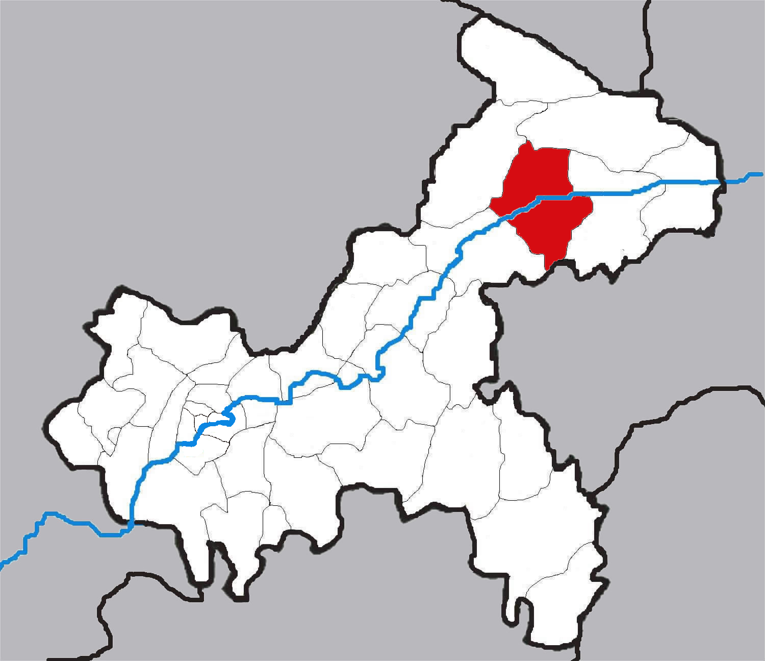 Administration maps of Chongqing, China